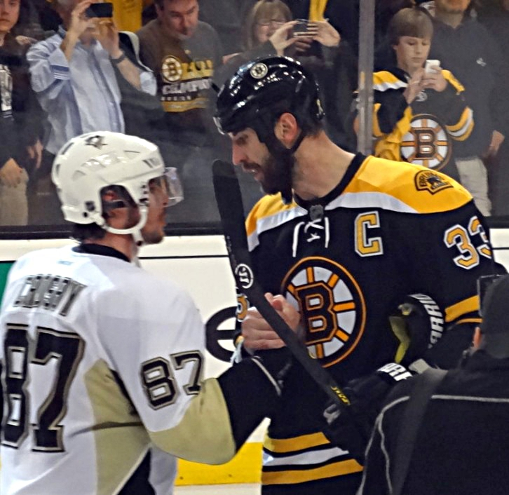 Boston captain Zdeno Chára meets Pittsburgh captain Sidney Crosby in the handshake line following the Bruins Eastern Conference Finals series sweep over the Penguins, June 7, 2013 at TD Garden in Boston, MA.